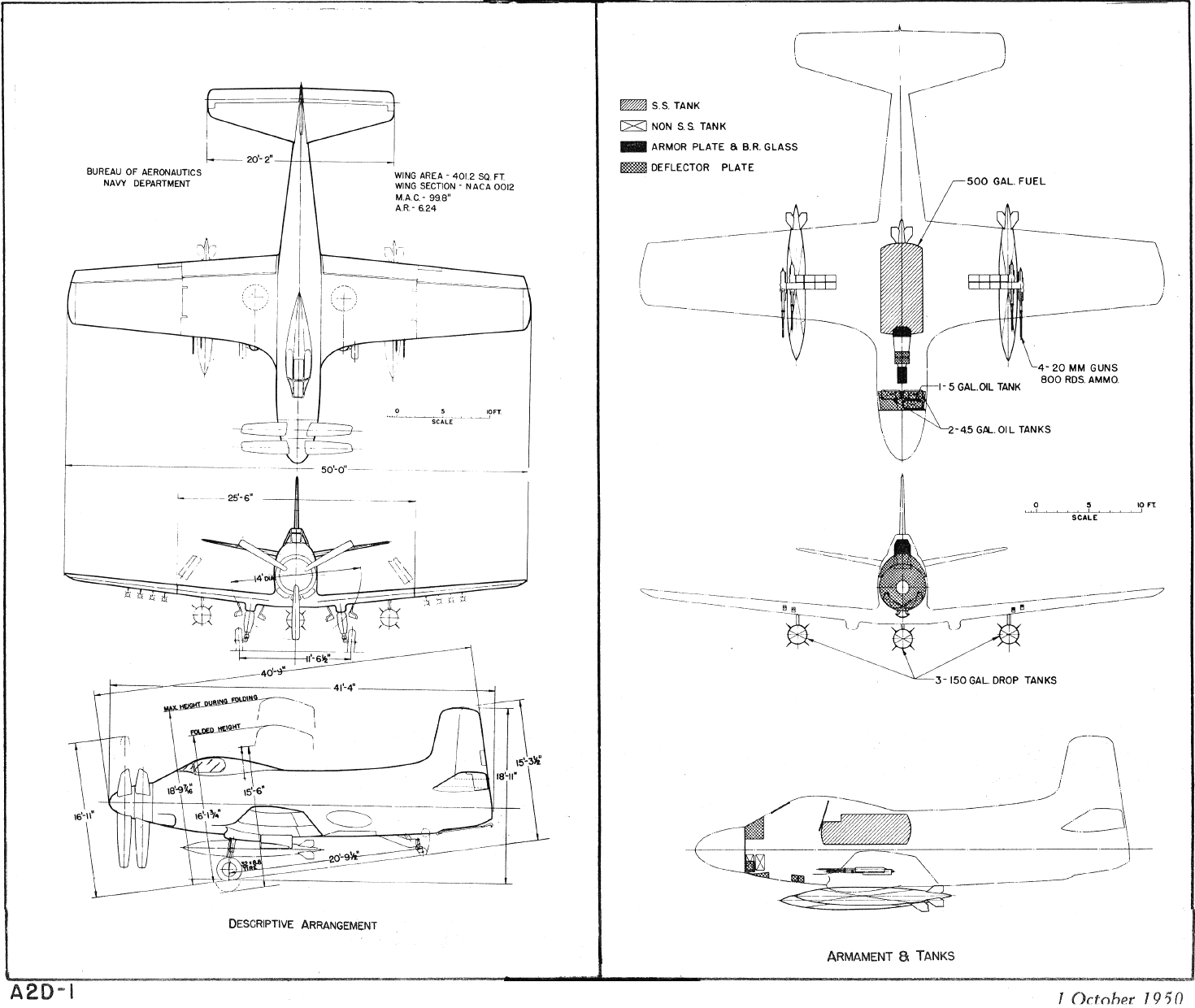 Standard Aircraft Characteristics (SAC) of the U.S. Navy Douglas A2D-1 Skyshark.